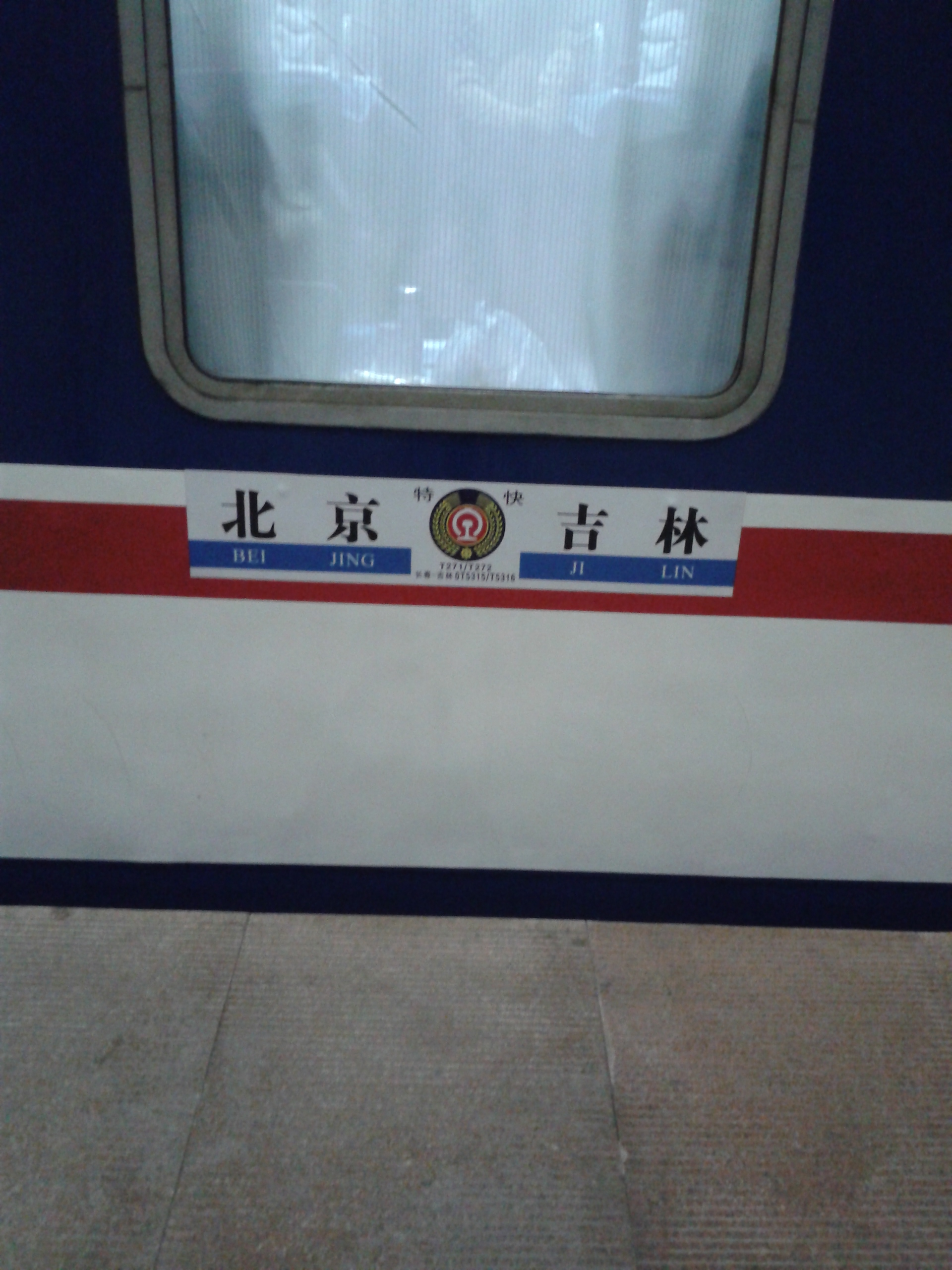 The Direction sign of train T271/T272 and 0T5315/T5316